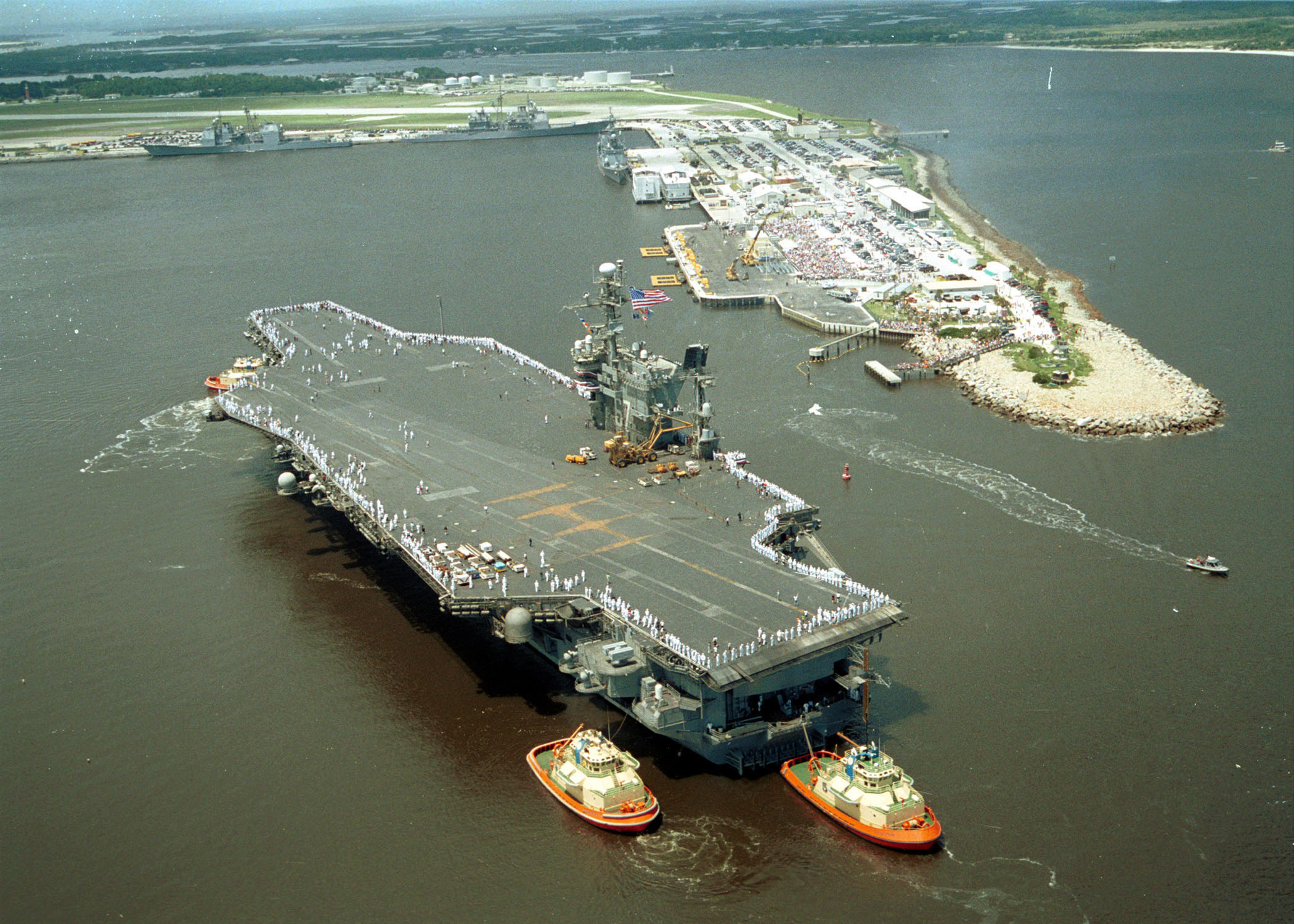 Naval Station Mayport, Florida (Aug. 17, 2002) -- Sailors “Man the Rails” of USS John F. Kennedy (CV 67) as the aircraft carrier is guided into port by tug boats. Kennedy is returning home after completing a six month long deployment conducting combat missions in support of Operation Enduring Freedom. U.S. Navy photo by Photographer's Mate 1st Class Dominick Haen. (RELEASED)